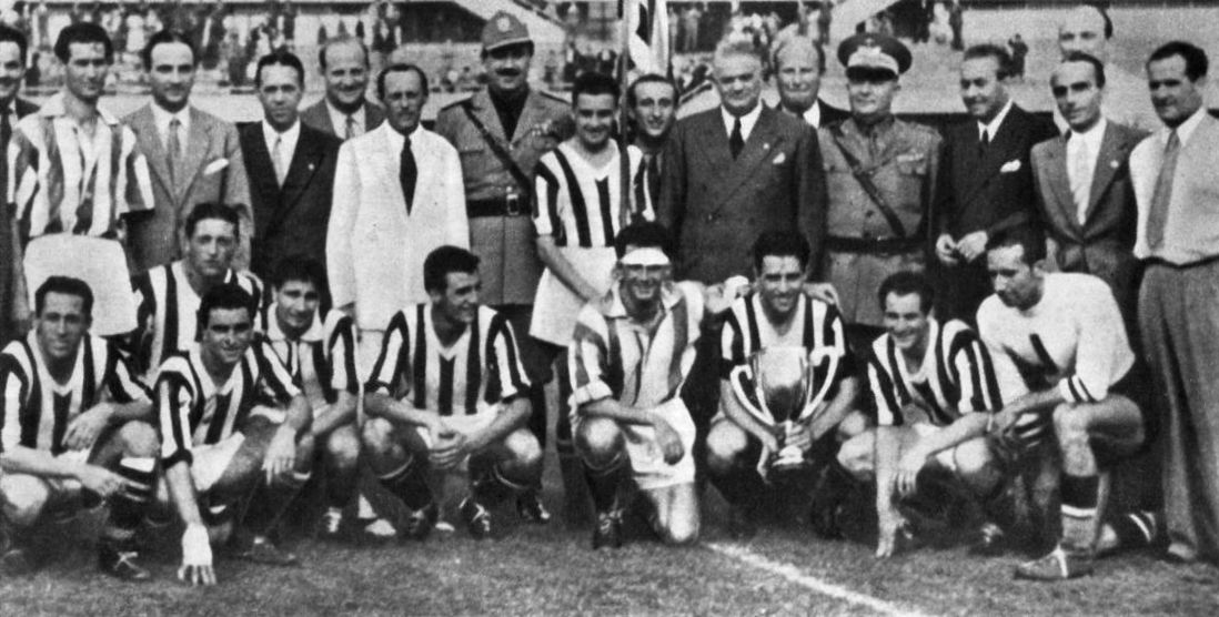 Turin (Italy), "Benito Mussolini" Municipal Stadium, June 28, 1942. The Juventus team, together with the Italian football authorities, posed with the 1941–42 Coppa Italia trophy at the end of the victorious retour final versus A.C. Milano (4-1). From left to right, standing: G. Varglien (II), P. Dusio (vice-president), V. Rosetta (manager), E. de la Forest (president), S. Bellini, general G. Vaccaro and, at the bottom right, L. Monti (coach); crouched: R. Lushta, V. Sentimenti (III) and, behind him, P. Rava, T. Depetrini, C. Parola, U. Locatelli, A. Foni (captain), L. Colaneri, G. Peruchetti, G. Peruchetti.